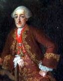 detail from Group portrait of the Harrach family playing backgammon including General Count Ferdinand Harrach